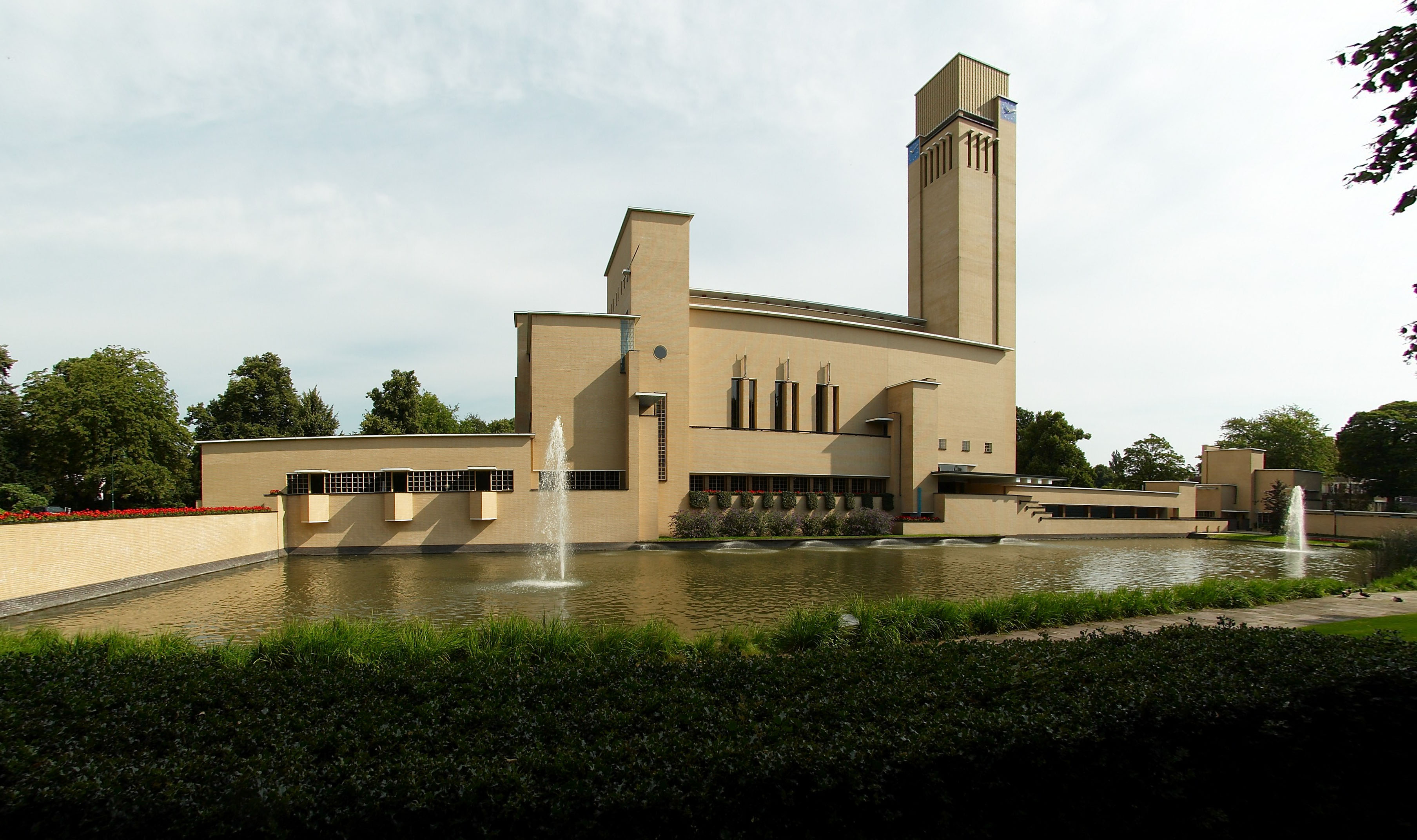 City Hall, Hilversum, The Netherlands, 1928-1931. Designed by Willem Marinus Dudok. Looking direction North. 3″ N, 5° 10′ 09.6″ E